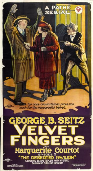 Poster for episode 5 "The Deserted Pavilion" of the American film serial film Velvet Fingers (1920).